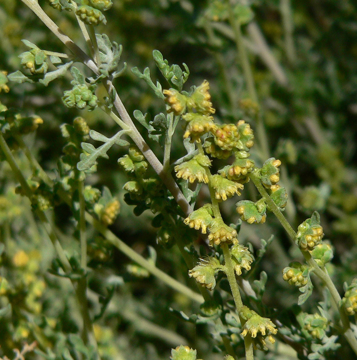 Ambrosia dumosa at the Springs Preserve garden, Las Vegas, Nevada